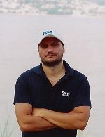 Radovan Nastic Bensedin